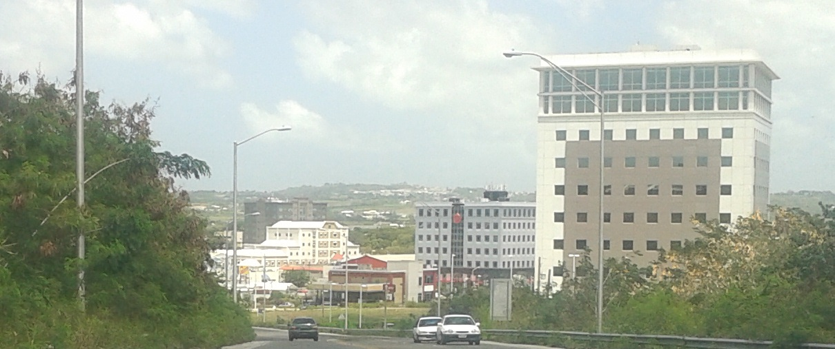 The Warrens area seen from the ABC highway